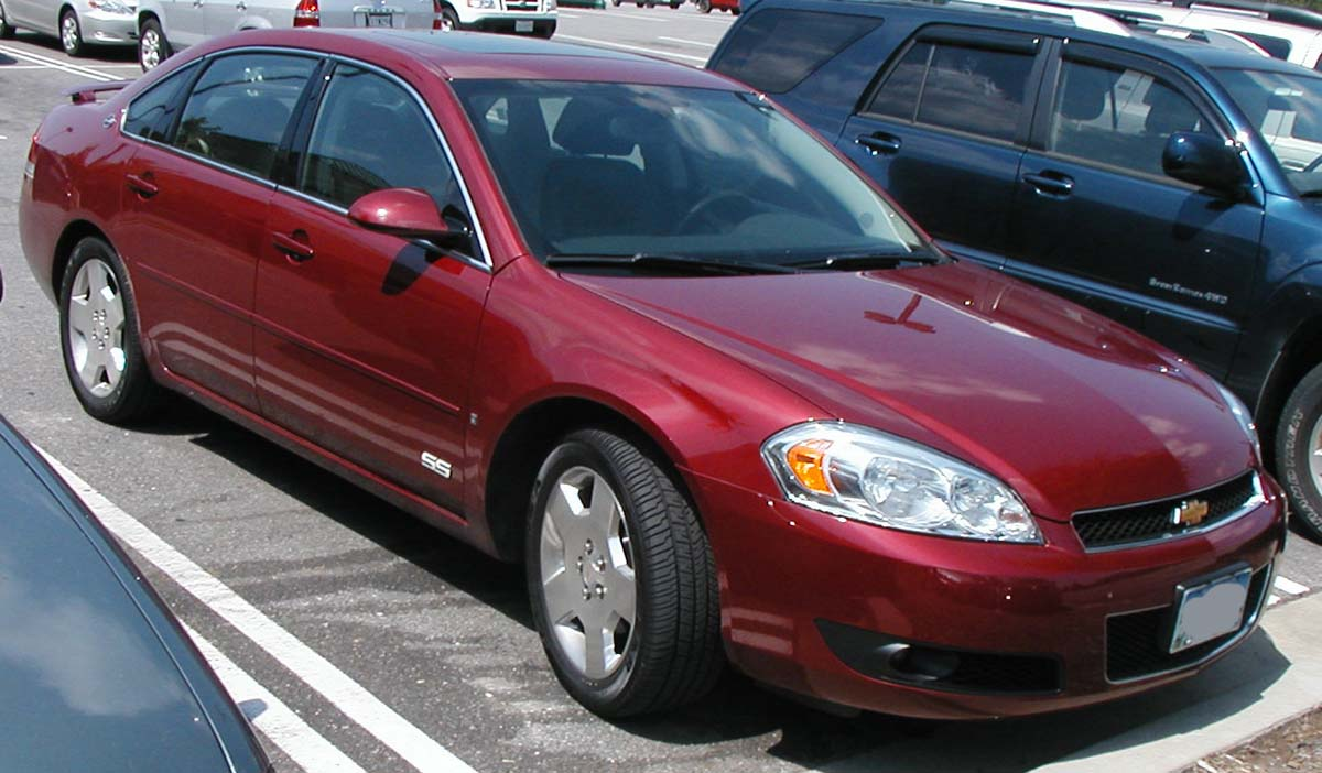 2006-2007 Chevrolet Impala SS photographed in USA.